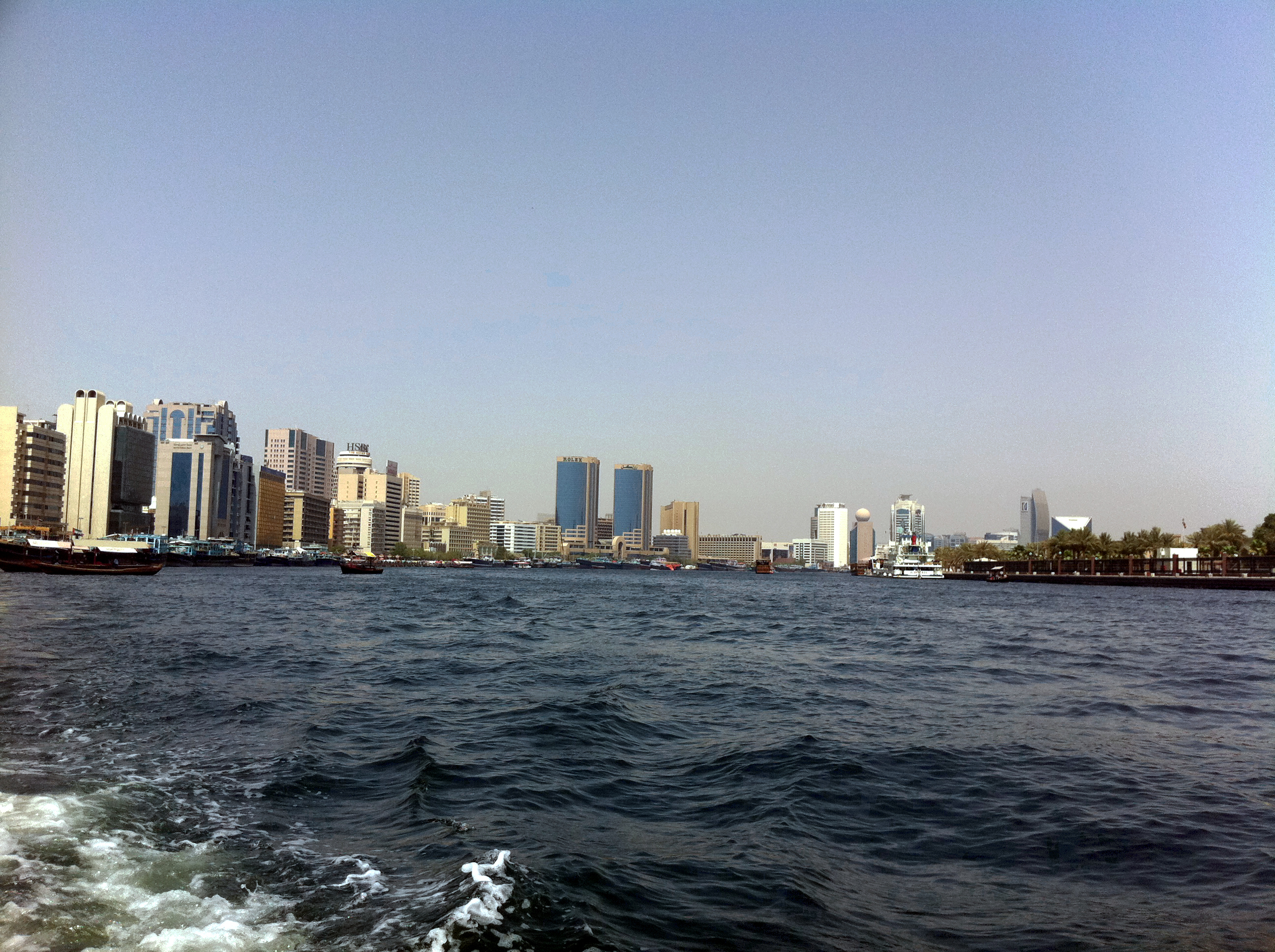 Dubai Creek 2012